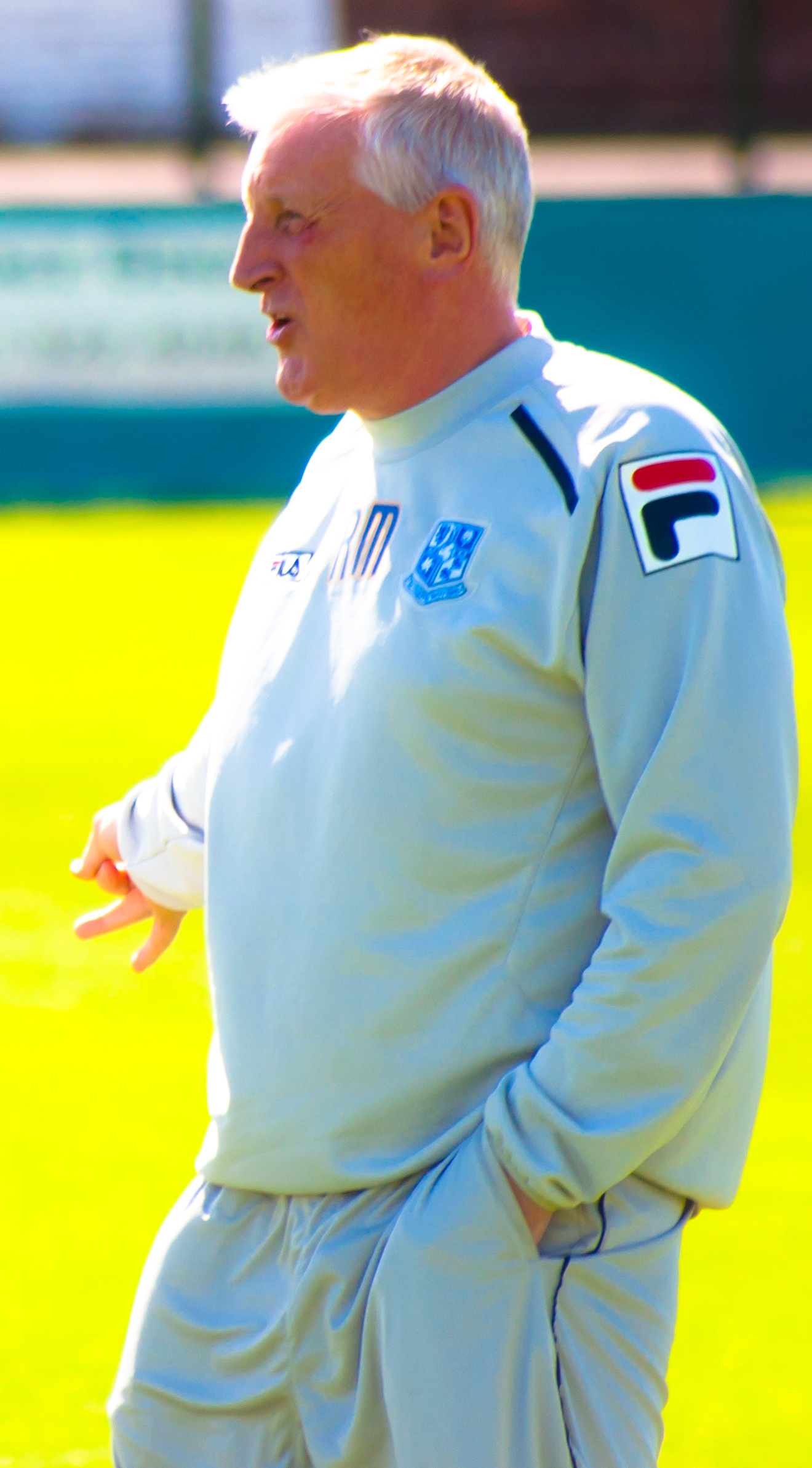 crop of Ronnie Moore from photo (with Dave Philpotts?) from Marine v Tranmere Rovers friendly